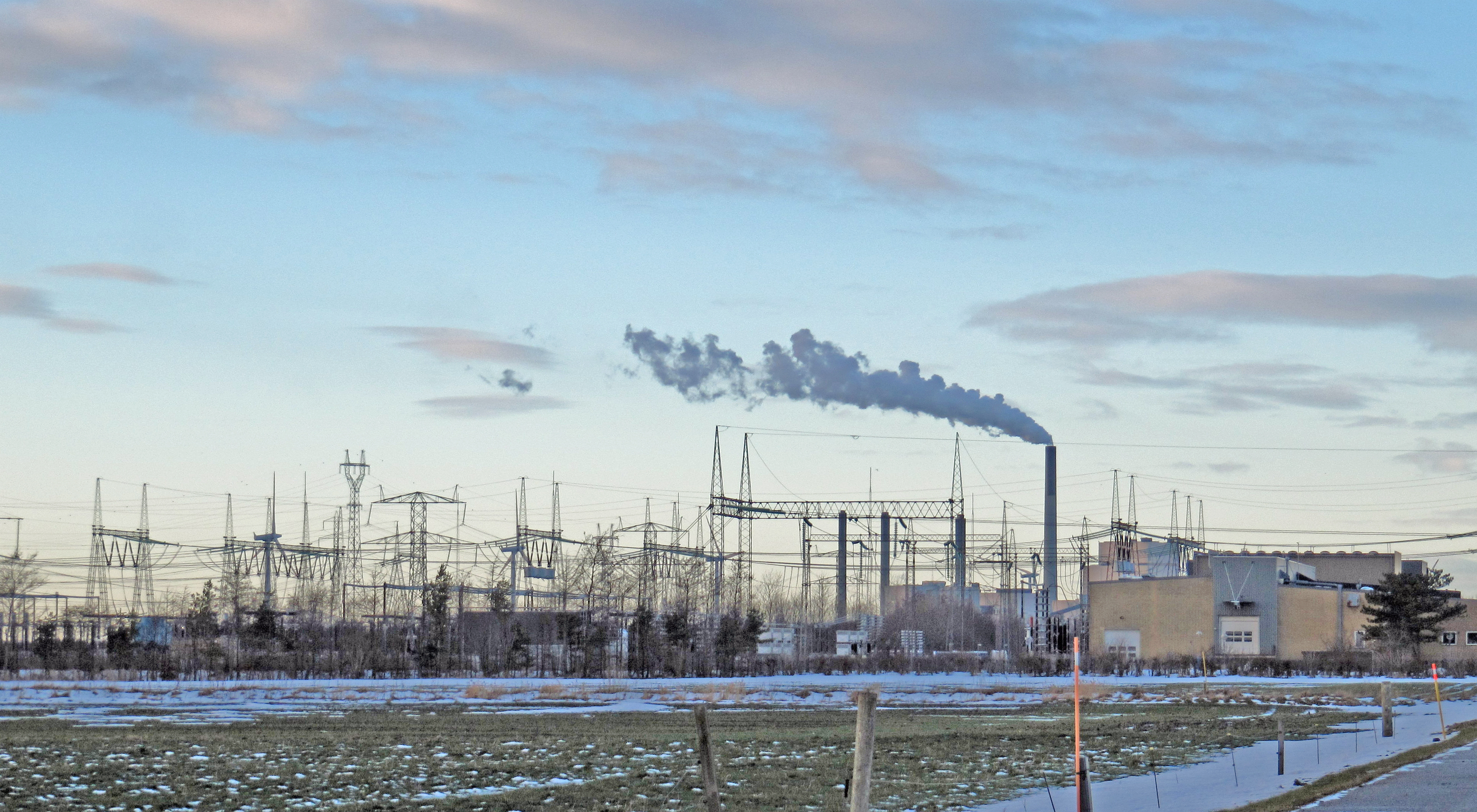 Vester Hassing substation and HVDC converter station (for the Konti-Skan interconnector) seen from Elsamvej, near Vester Hassing, Denmark. Chimneys of Nordjylland power station and tall pylons of the Limfjord power line crossings in the background.